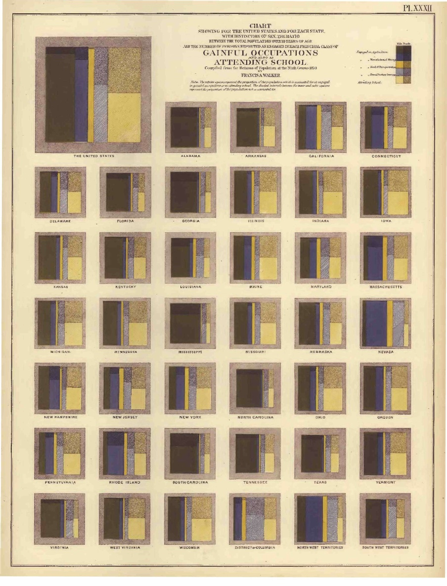 Small multiple treemaps showing "for the United States and for each state, with distinction of sex, the ratio between the total population over 10 years of age and the number of persons reported as engaged in each principal class of gainful occupations and also as attending school, compiled from the returns of population at the Ninth Census 1870." From Statistical Atlas Of The United States based on the results of the Ninth Census 1870, as reproduced in Fraser's Federal Reserve Archive.